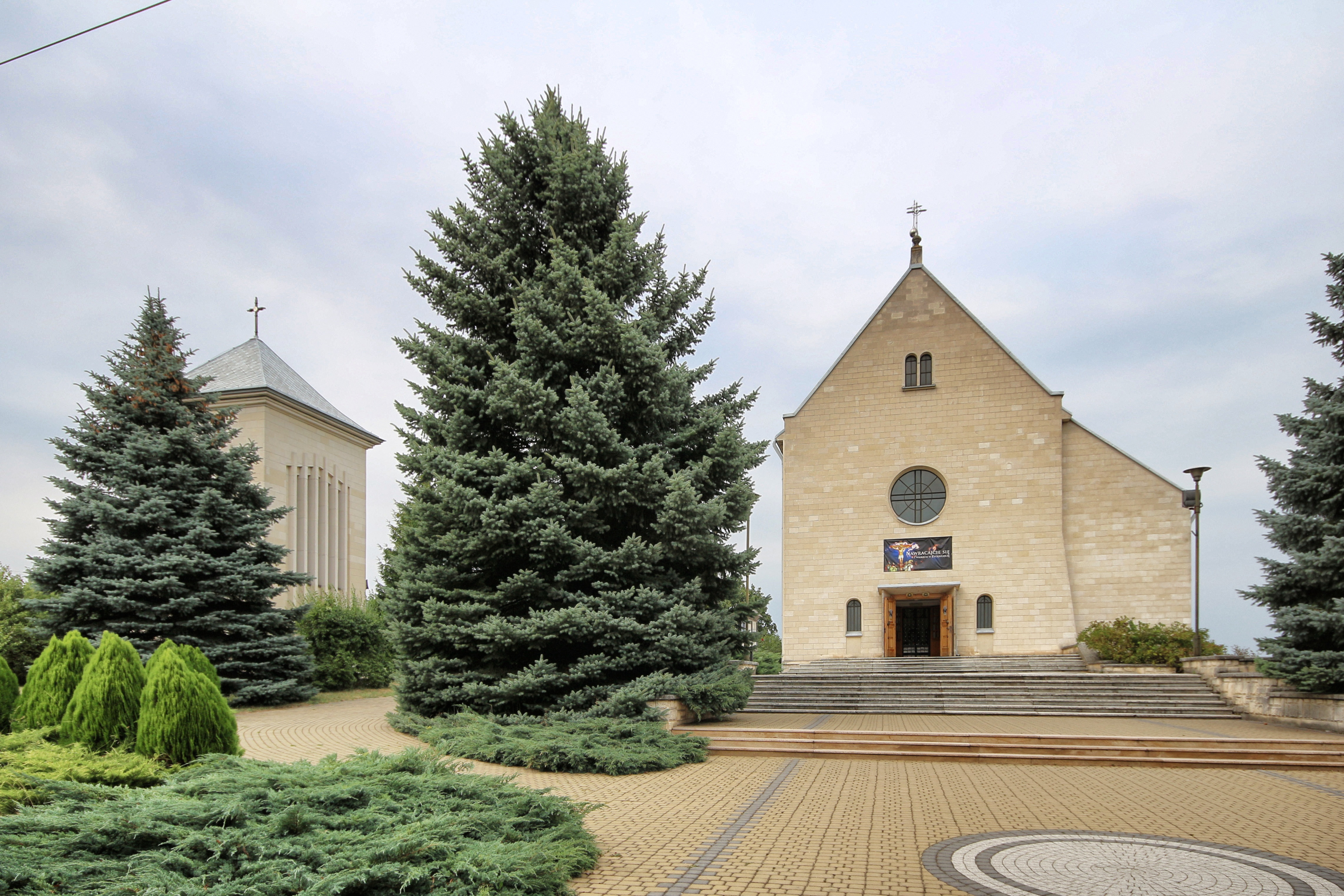 Our Lady of Perpetual Help church in Morawica.